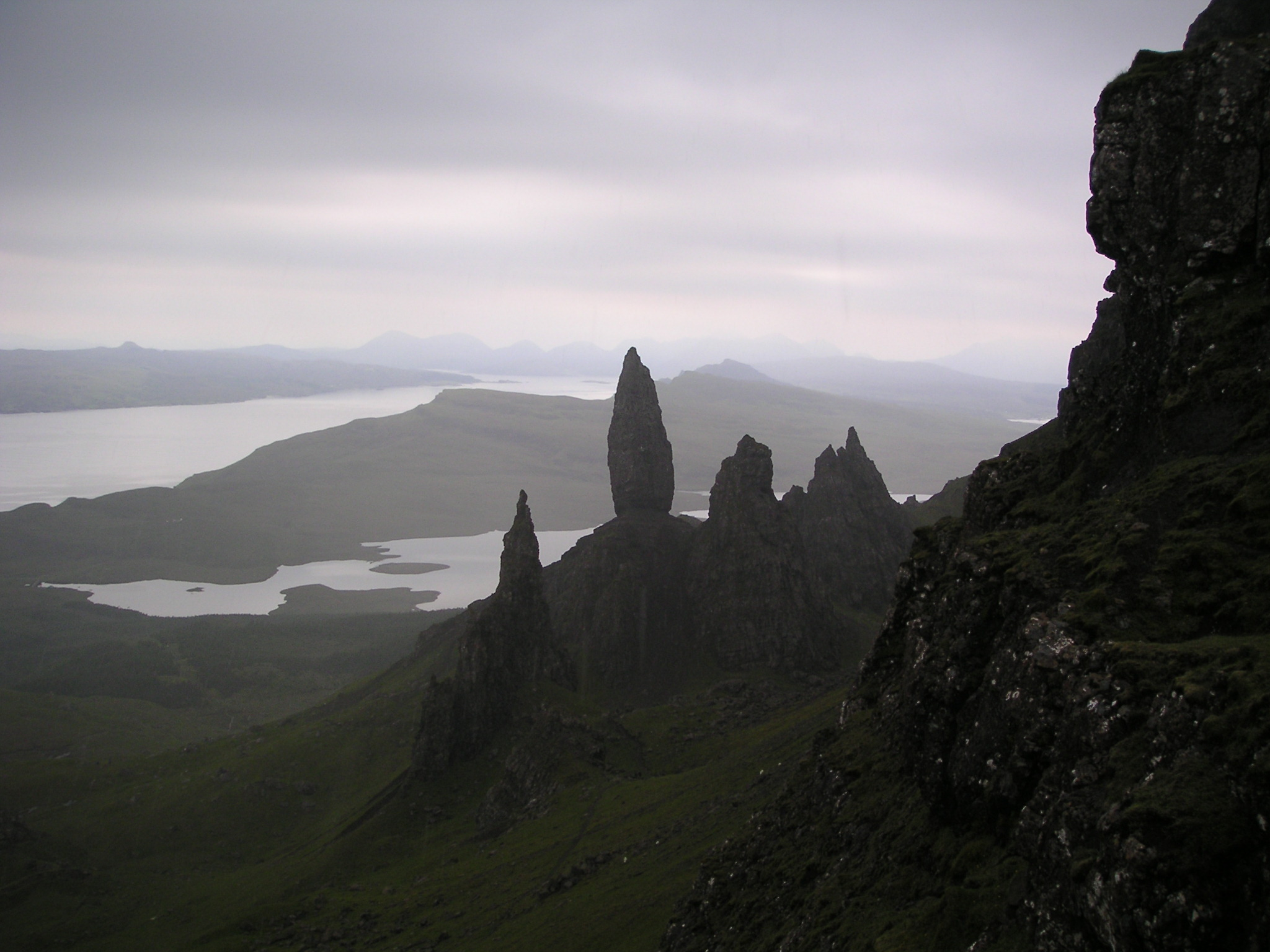 The Old Man of Storr, Skye, Scotland by Wojsyl, June 2004.